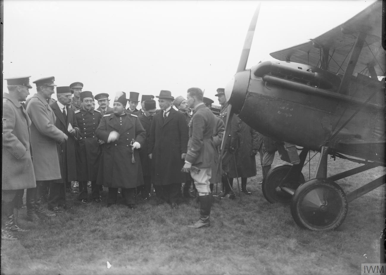 Aircraft and Balloons Used by Some of the Air Pioneers Who Were Contemporary With Samuel Franklin Cody. Ahmad Shah Qajar the former King of Iran and his ministers inspecting aircraft. In the foreground is a pilot stood next to the nose of his aircraft. On the left hand side of the photograph are two British officers.